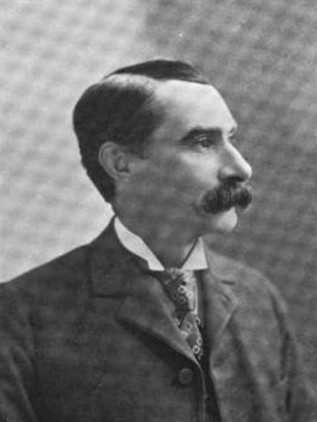 Edwin Olmstead Keeler (born Ridgefield, January 12, 1846 – December 4, 1923) was a Republican Lieutenant Governor of Connecticut from 1901 to 1903. He had previously served as the first mayor of Norwalk, Connecticut from 1893 to 1894. He was a member of the Connecticut House of Representatives from 1893 to 1896, and was a member of the Connecticut Senate from 1897 to 1900. He served as President Pro Tempore of the Connecticut Senate. He served as a delegate to the Republican National Convention from Connecticut in 1896.